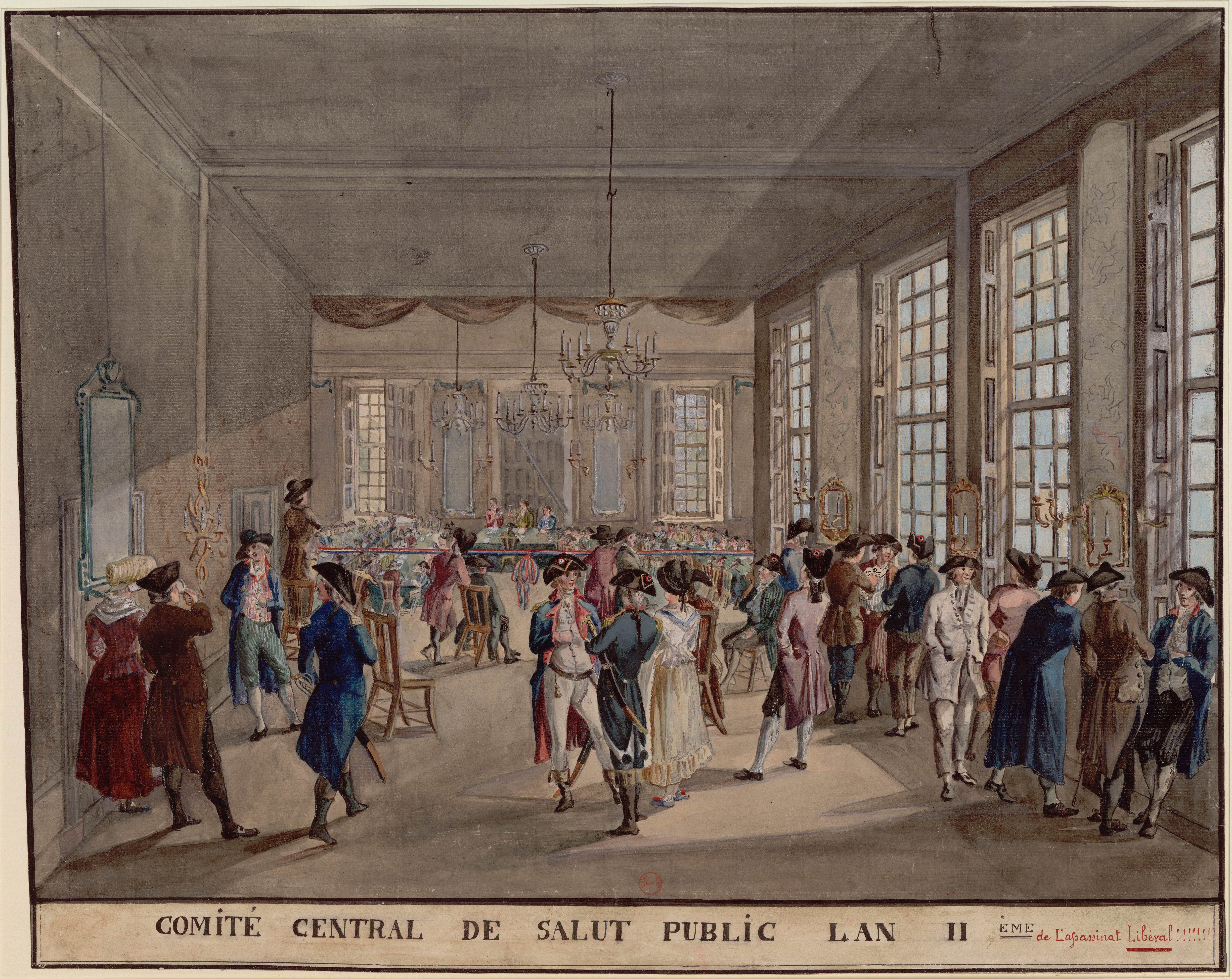 In a large room with columns men conversing in small groups others attend. They are dressed in coats shaped redingottes, wearing pants with boots and sometimes wearing tricorn hats with tricolor. The room is divided by a red white blue ribbon tied in the center. It is occupied by an assembly seat four rows facing each other with a wide table that serves as an office.